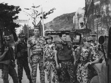 Participants of the inter-agency counterinsurgency Operation PHOENIX administered by the CIA and activated under Civil Operations and Revolutionary Development Support Program in South Vietnam in 1967-1971 with the goal to break Viet Cong support in the countryside, July 1968.